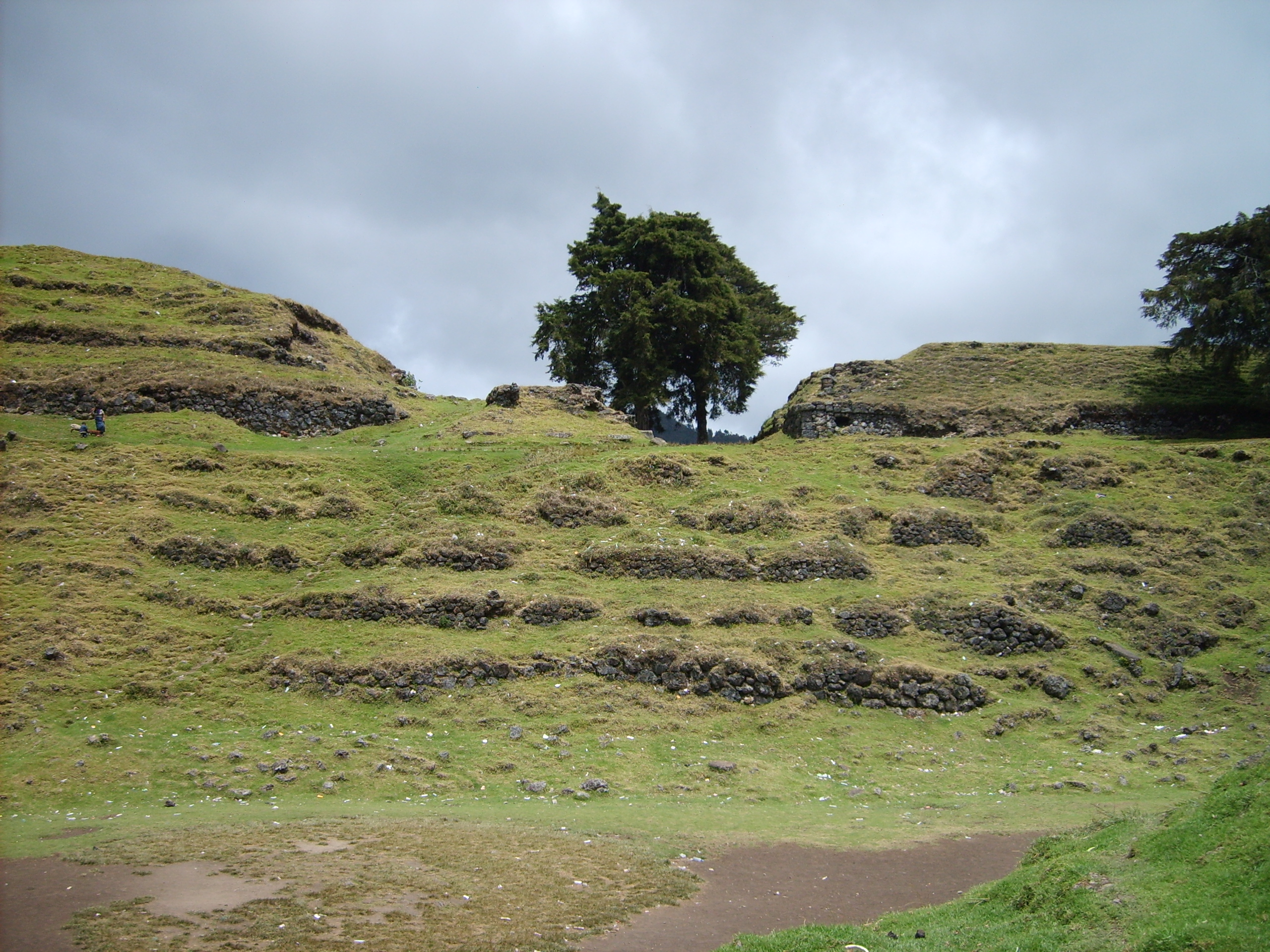 Unexcavated pre-Columbian ruins at San Mateo Ixtatán in Huehuetenango department of Guatemala. Built by the ancestors of the modern Chuj Maya.